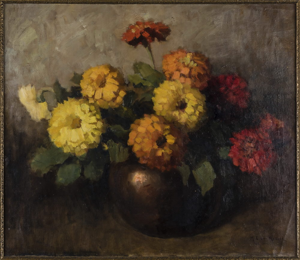 Painting, oil paint, depicting a bouquet of zinnias in a spherical red copper vase.